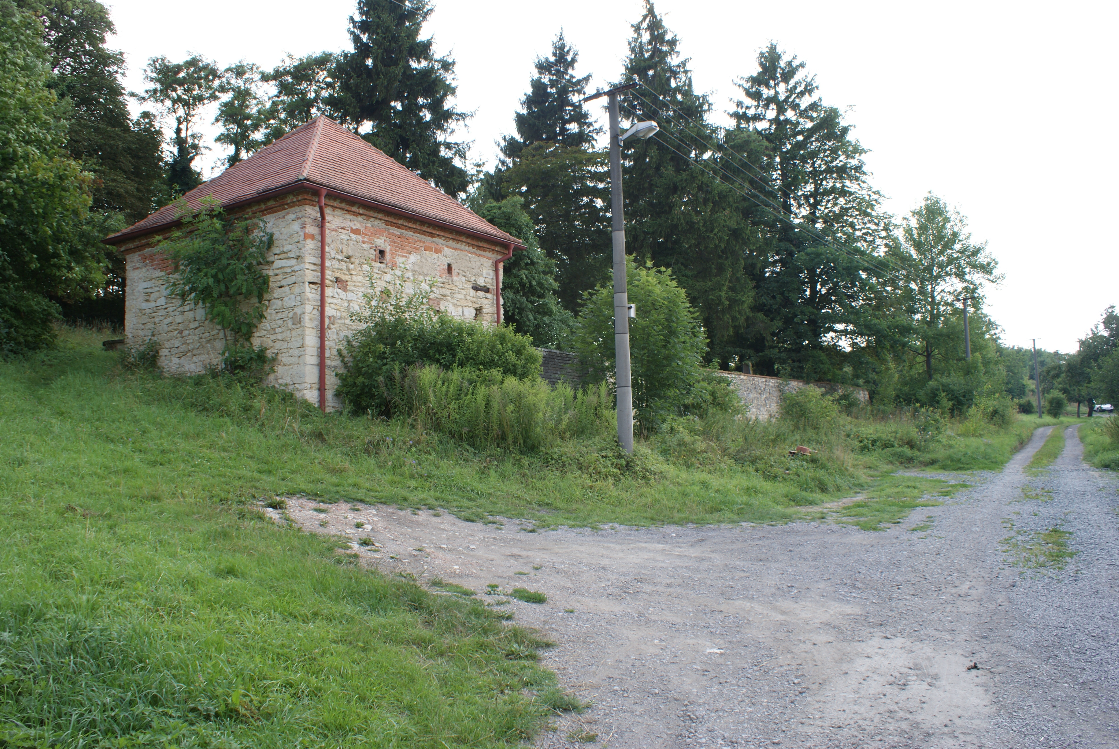 New Jewish cemetery near village of Hostouň, Kladno District, Czech Republic seen from the east.